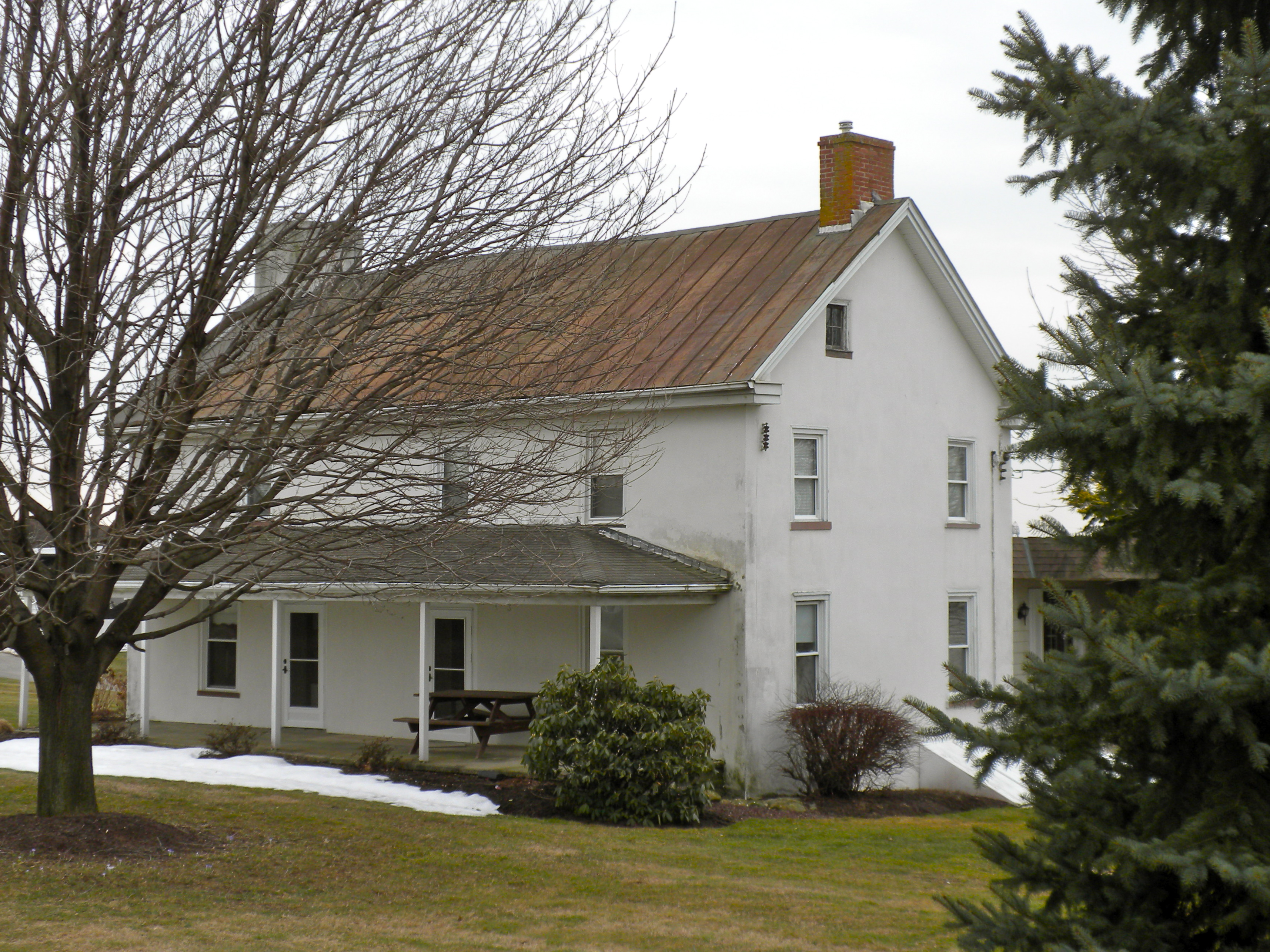 Phillip Dougherty House (not to be confused with the Phillip Dougherty Tavern, or the Edward Dougherty House which are all NRHP listings in the area), on Strasburg Road in Chester County, PA. On the NRHP since September 18, 1985. Near Coatesville, Pa but in East Fallowfield Township.